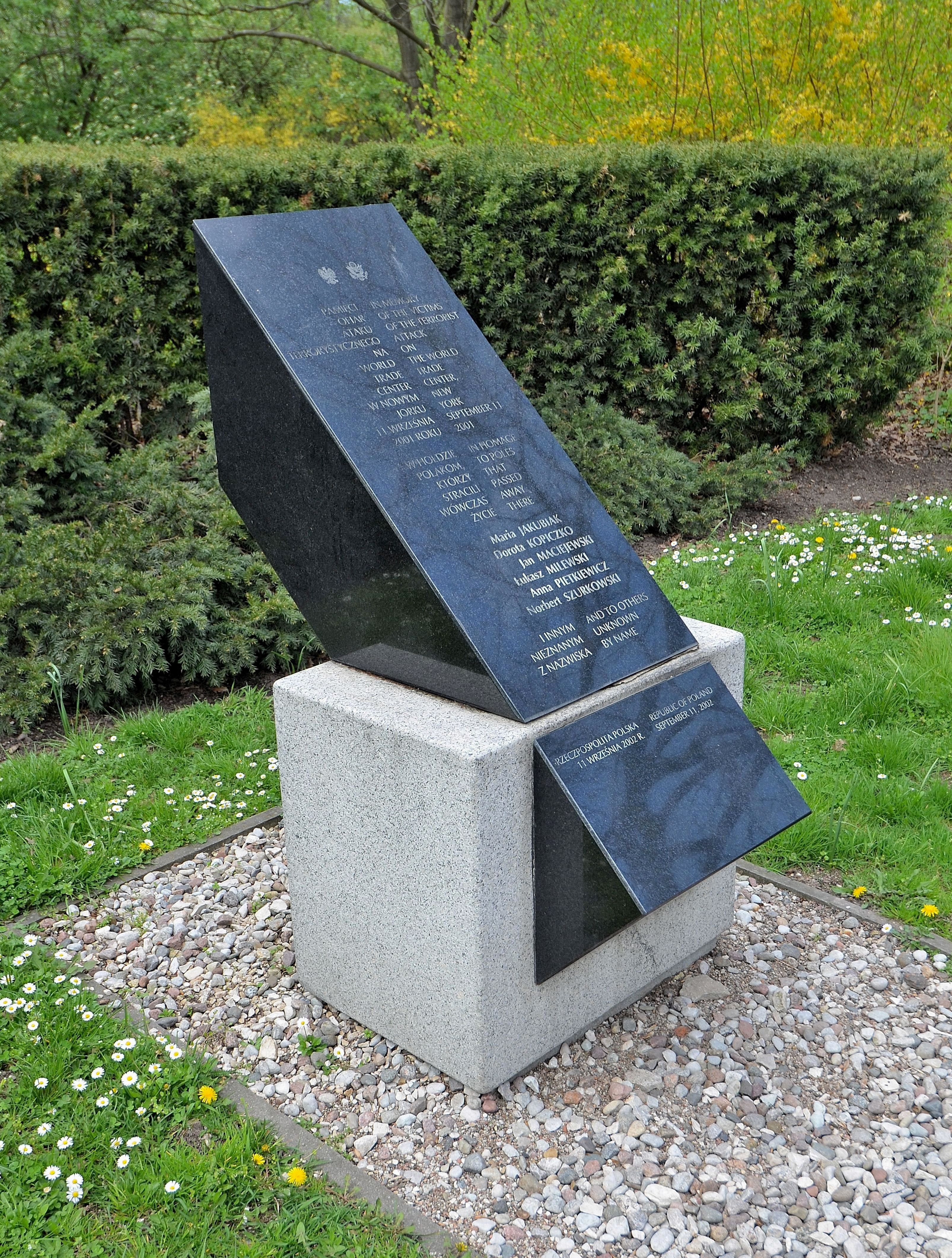 Memorial to the Poles - Victims of the September 11th Terrorist Attack in Skaryszewski Park in Warsaw